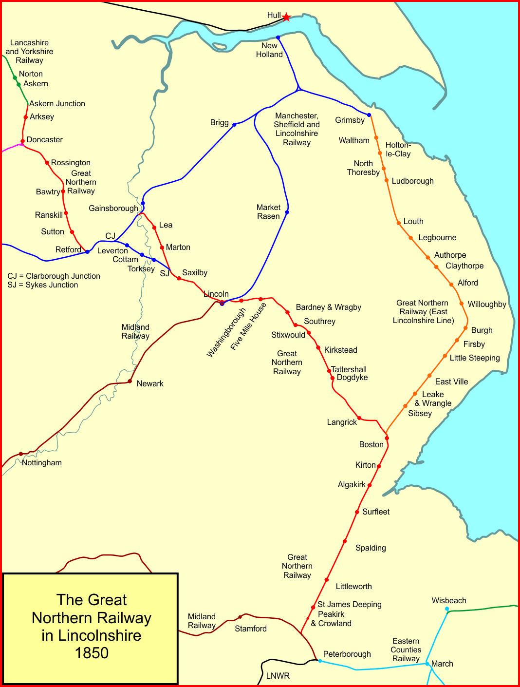 System map of the Great Northern Railway in Lincolnshire, England, in 1850